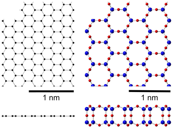 Graphene (left) and hexagonal bilayer silica (HBS, right): top and side views.